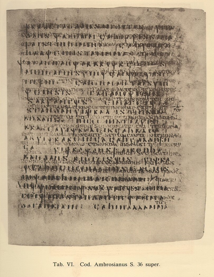 Codex Ambrosianus S. 36 super